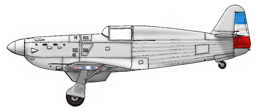 Profil of a Rogozarski IK-3.